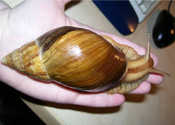 Achatina immaculata immaculata